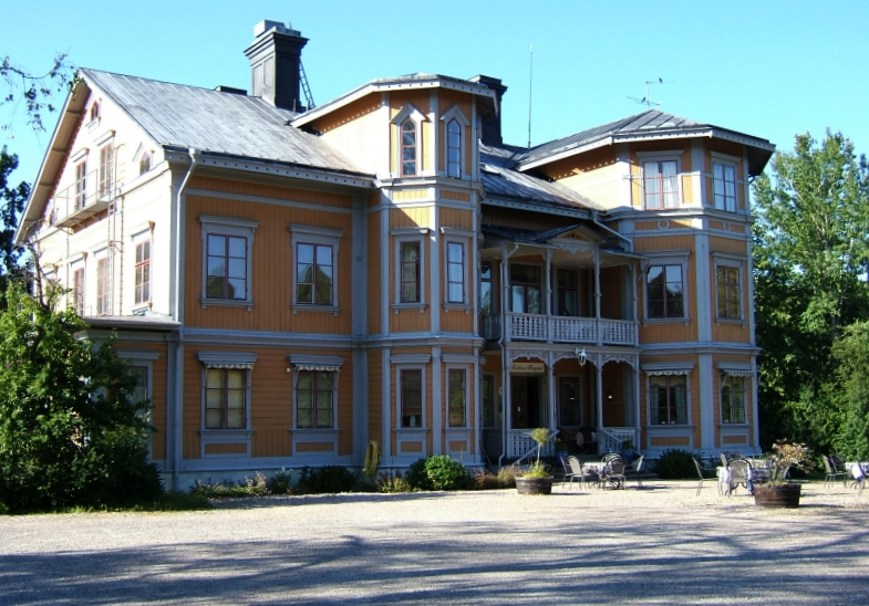 The new Kohlswa mansion in Kolsva, Sweden